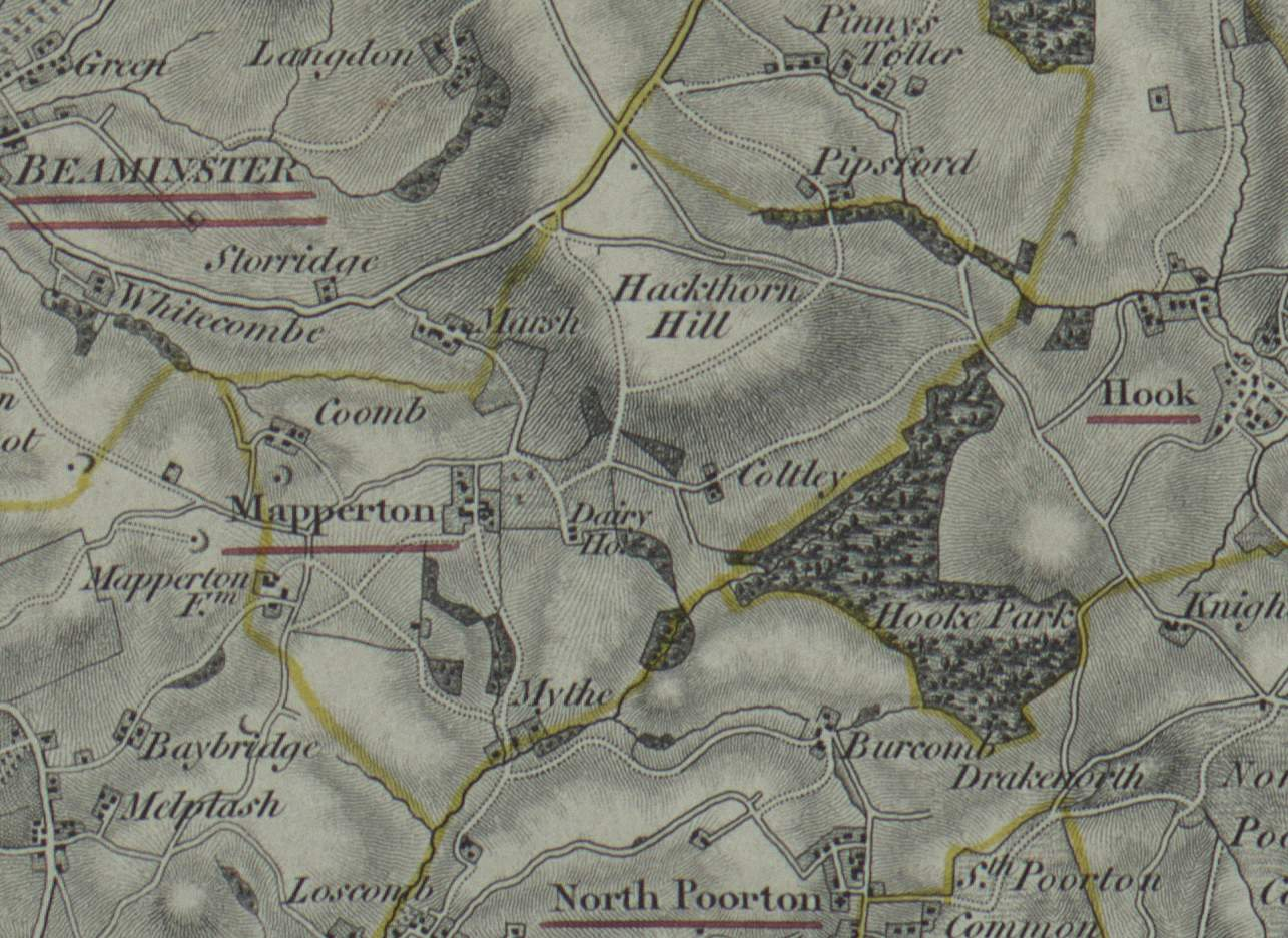 Civil parish of Mapperton, Dorset, showing borders as they were in 1830